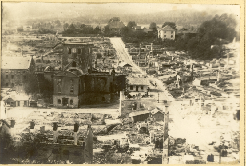 Skien after the great fire in 1886.